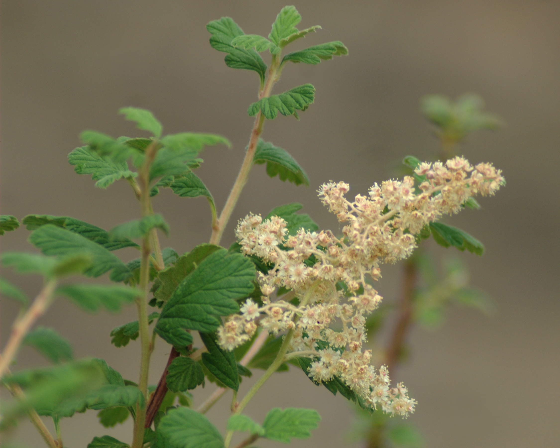 Holodiscus dumosus (rock spirea, mountain spray) inflorescence and leaves, side road of Forest Road 144, Rio Arriba County, New Mexico.